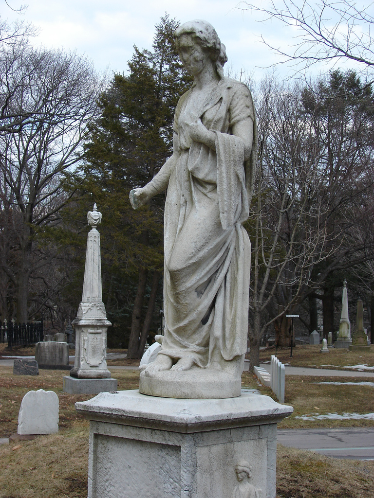 I, Christopher Busta-Peck, took this photograph of this statue of Hygeia, carved by Edmonia Lewis c.1871-1872 for the grave of Dr. Harriot Kezia Hunt in Mount Auburn Cemetery, on March 11, 2007. The original for this file is here. It is part of a large set of photographs that I took of the statue, which may also be of interest, however, this is the only photograph from the set that I release under these terms - the rest I retain full rights to.